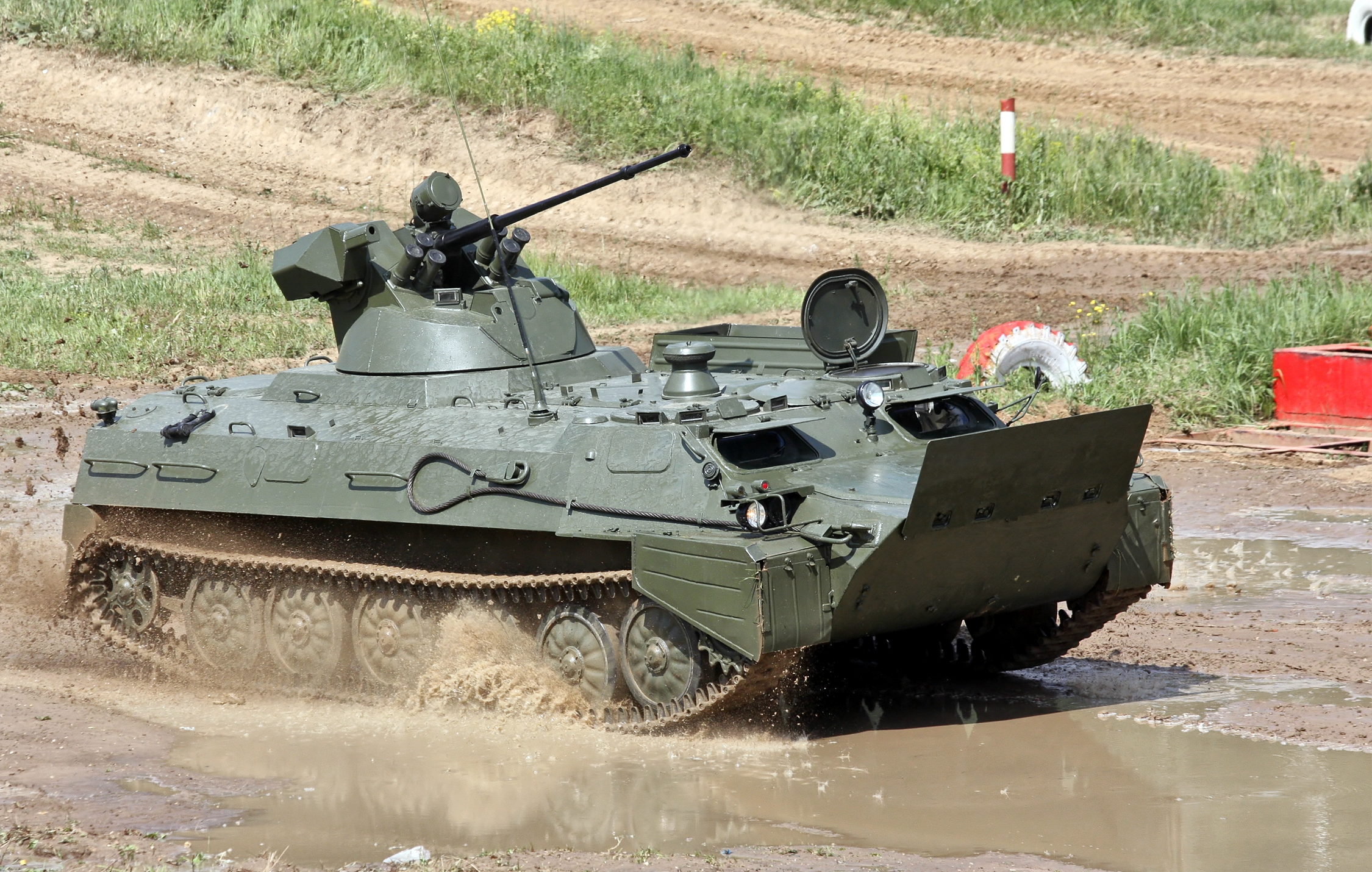 MT-LBMB with MB2 combat module during a demonstration at Bronnitsy test rage.